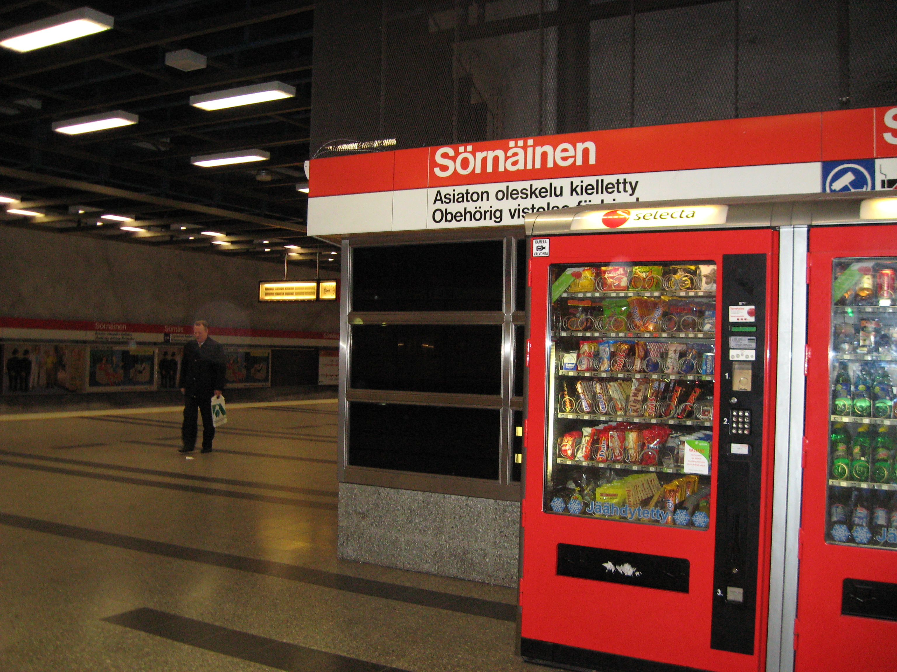 Sörnäinen metro station in Helsinki